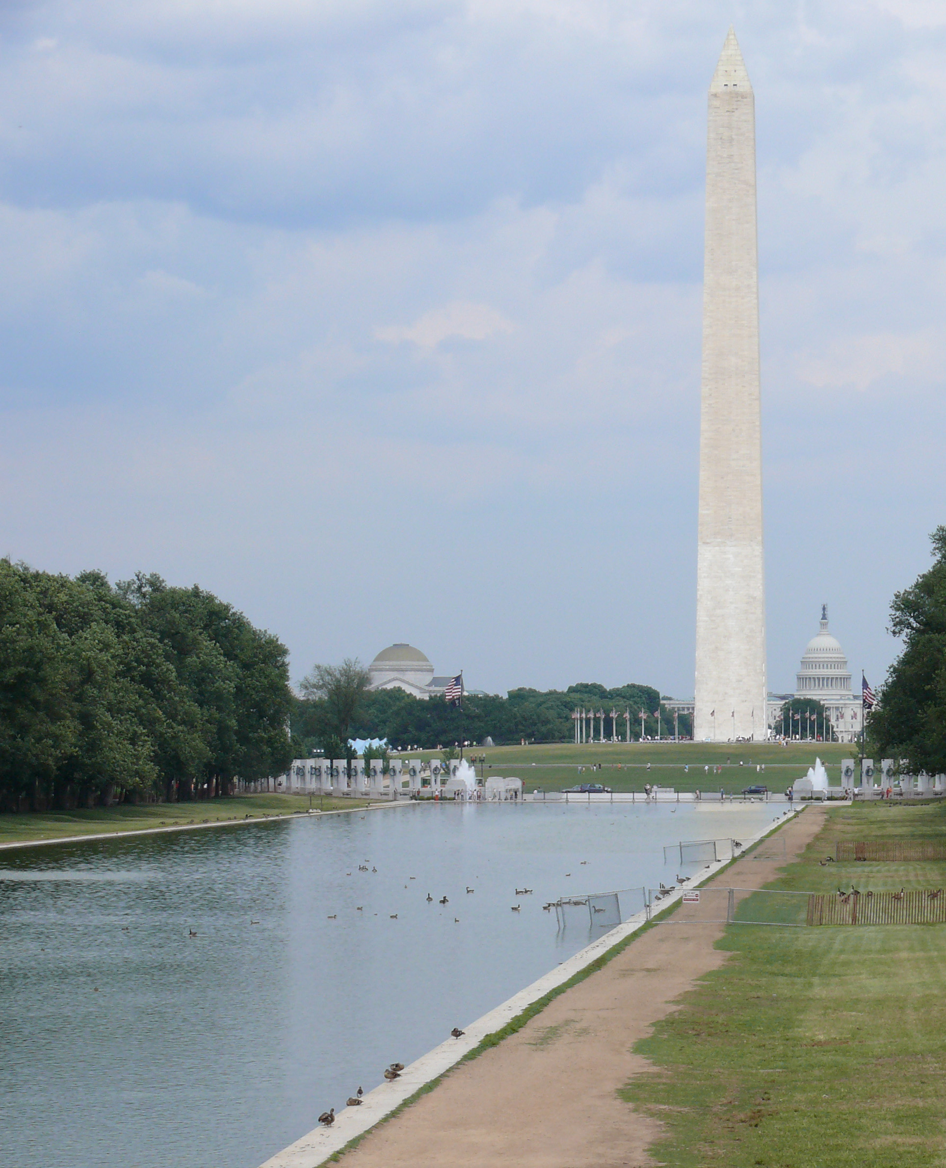 Reflecting pool with National WWII Memorial, Washington Monument and the Capitol in the background. Reflecting pool met het Natioonaal Wereldoorlog II memoriaal, het Washington Monument en het Capitool op de achtergrond